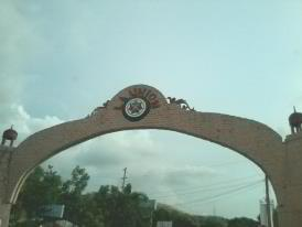 Welcome Arch of La Union at the La Union-Ilocos Sur border.